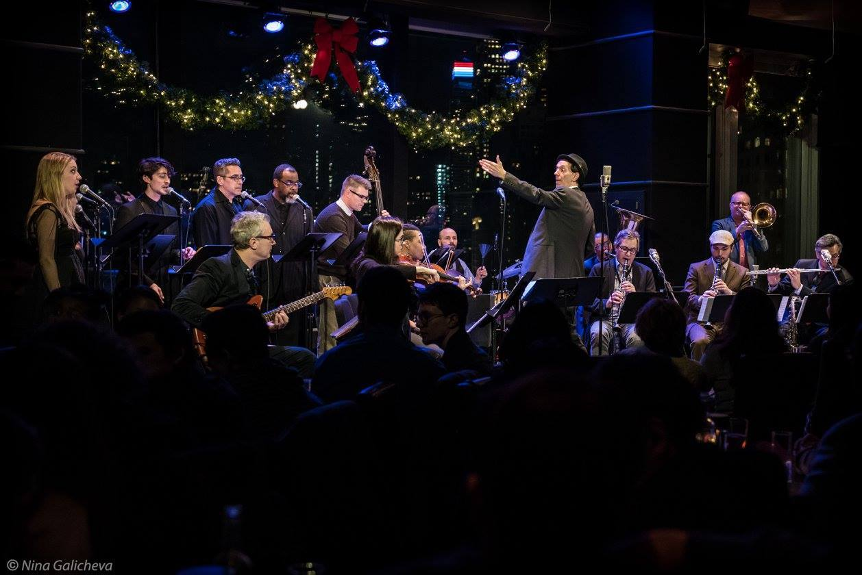 Ghost Train Orchestra with choir, Jazz at Lincoln Center, NYC, January 2018. Photo by Nina Galicheva.